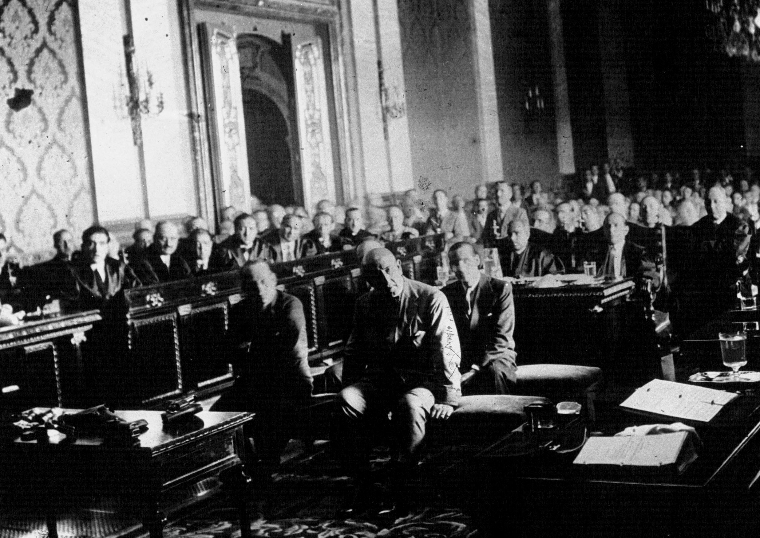 José Sanjurjo along with other Spanish military officers standing to be judged